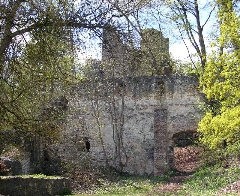 Burg Kaltenburg (Schwäbische Alb), Gatehouse with southwest construction and curtain wall of the second castle.